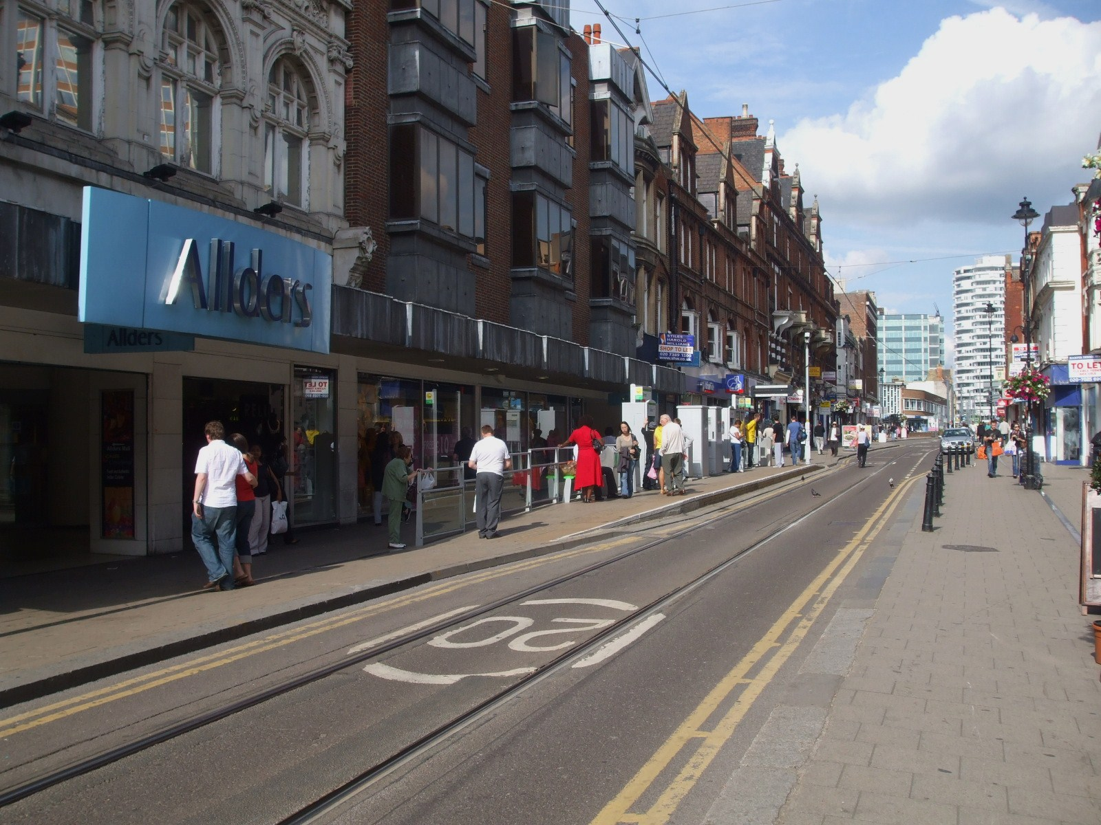 George Street tram stop western entrance. The single platform is uni-directional, in the westbound direction only.